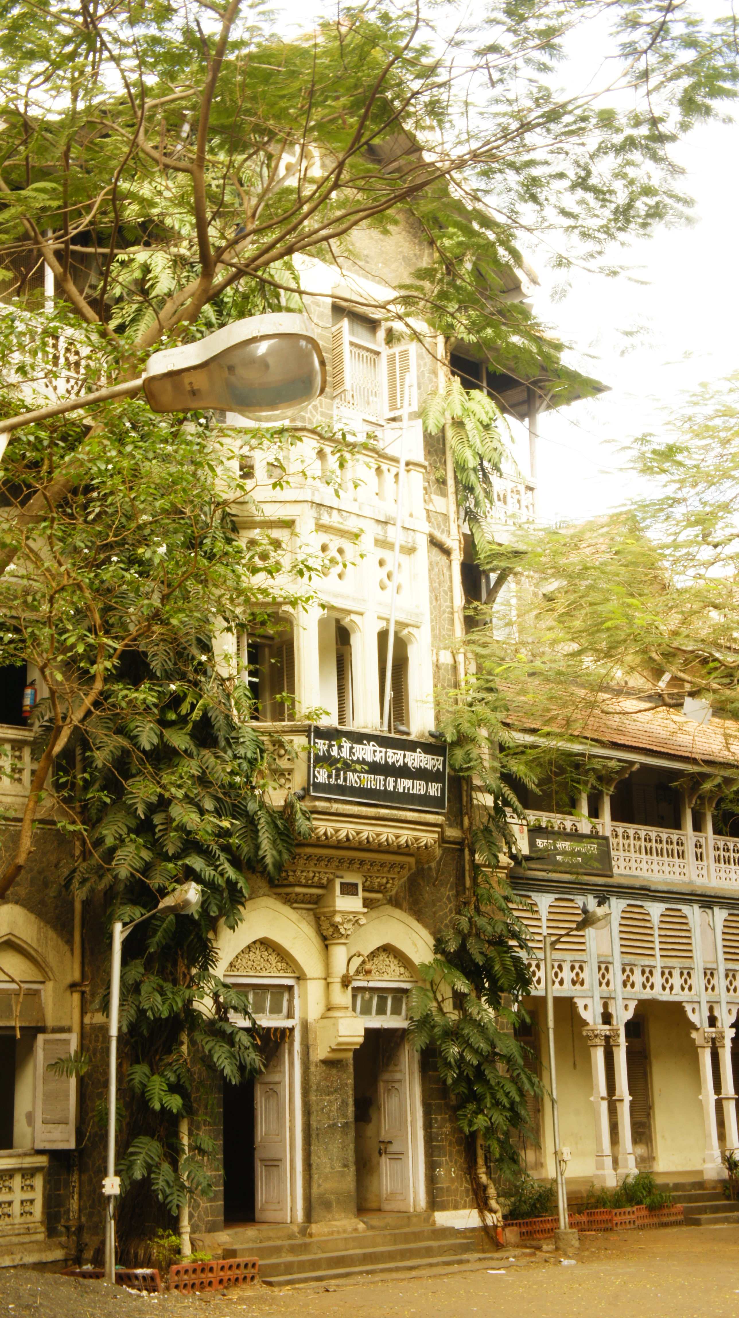 Sir J. J. Institute of Applied Art is an Indian applied art institution based in Mumbai. It is a state government college that was created through its sister school, the Sir J. J. School of Art. The "Sir J. J." in the name stands for Sir Jamsetjee Jeejebhoy, a Parsi philanthropist whose name is linked to numerous historical institutions of Mumbai, such as the Sir J. J. Hospital. In 1958, Sir J. J. School of Art was divided, with the Departments of Architecture and Applied Art becoming the Sir J. J. College of Architecture and Sir J.J. Institute of Applied Art respectively.